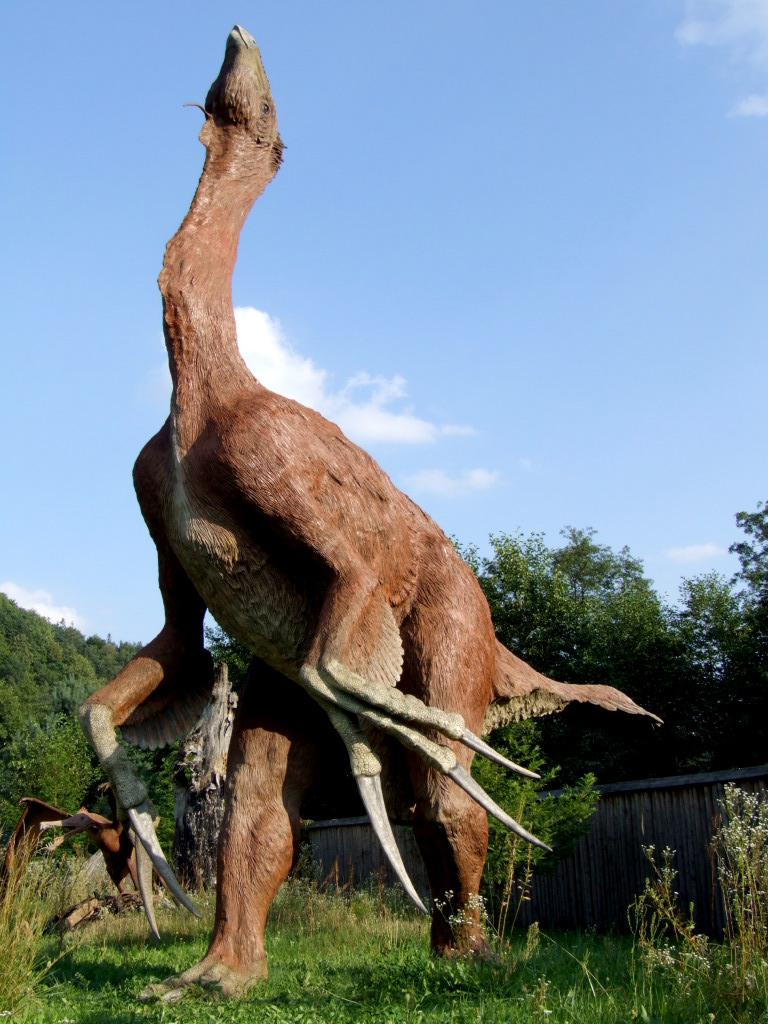 Model of therizinosaurus cheloniformis in Bałtów Jurassic Park, Bałtów, Poland}